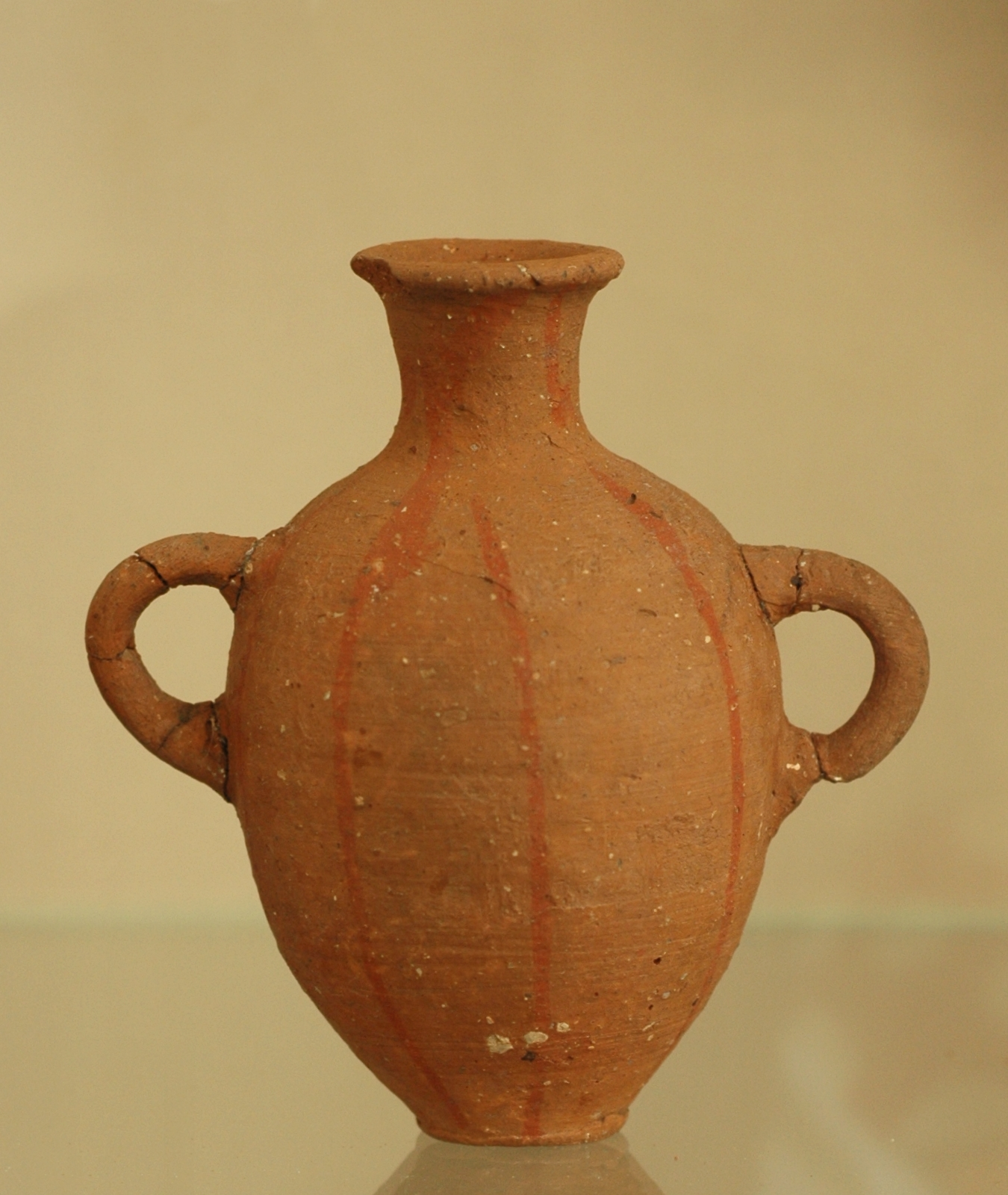 Small jug. Terracotta with painted decoration, Late Bronze Age (1600-1200 BC). Found in Byblos.